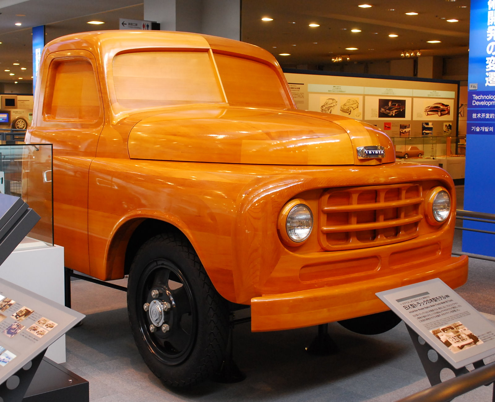 Toyota Model BX Truck (full-scale wooden replica)